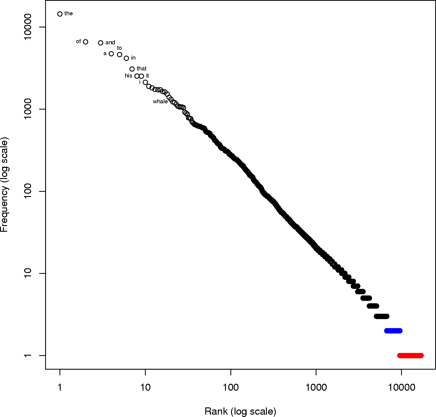 Frequency of words in Moby Dick, showing the ten most common words, and the 21st ("whale"). About 44% of the words occur only once, are hapax legomena (red, e.g. "matrimonial") and about 17% occur only twice, are dis legomena (blue, e.g. "dexterity"). Words are counted from Project Gutenberg text at